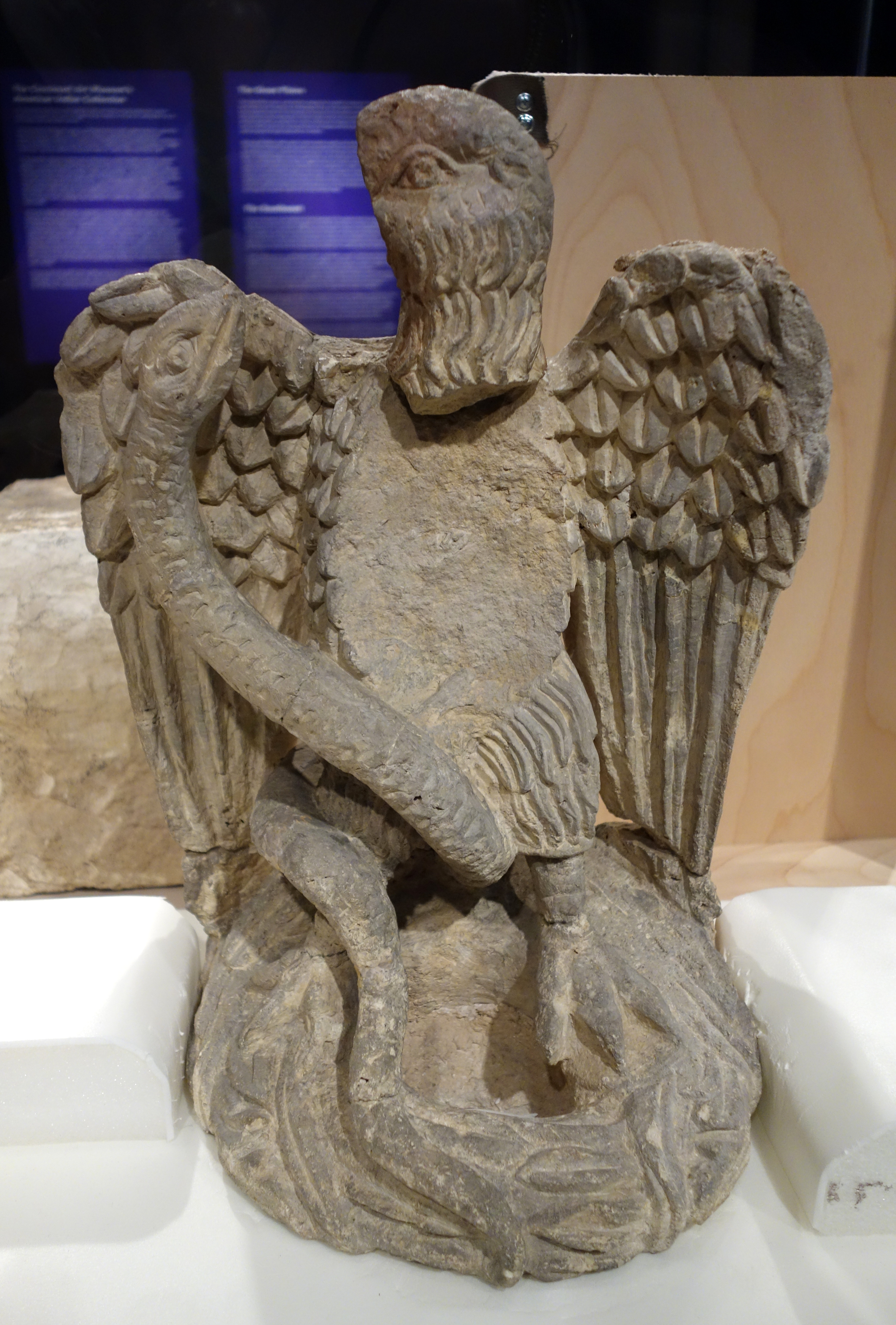 Exhibit in the Cincinnati Art Museum, Cincinnati, Ohio, USA. This artwork is in the public domain because the artist died more than 70 years ago.